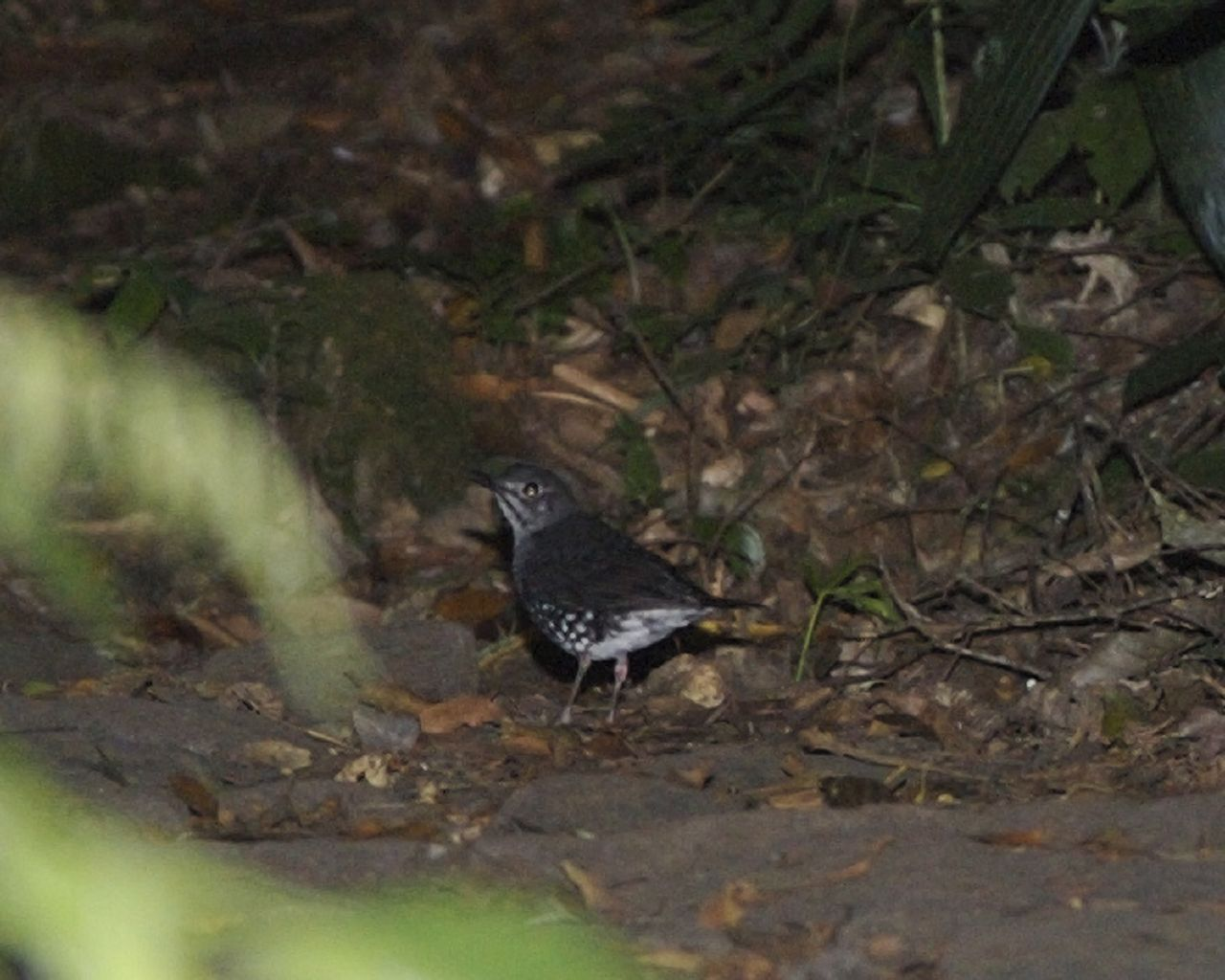 Sunda thrush Zoothera andromedae Local name: Indonesian: Burung anis hutan 11th. August 2007 Location : Gunong Gede, Java, Indonesia Distribution: _Q0S8442